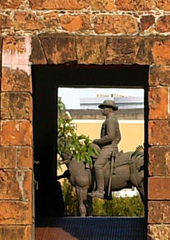 World Press exhibition in the old Portuguese Fortaleza (fort) with obligatory equestrian statue.